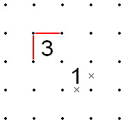 Slitherlink; Diagonals of a 3 and 1